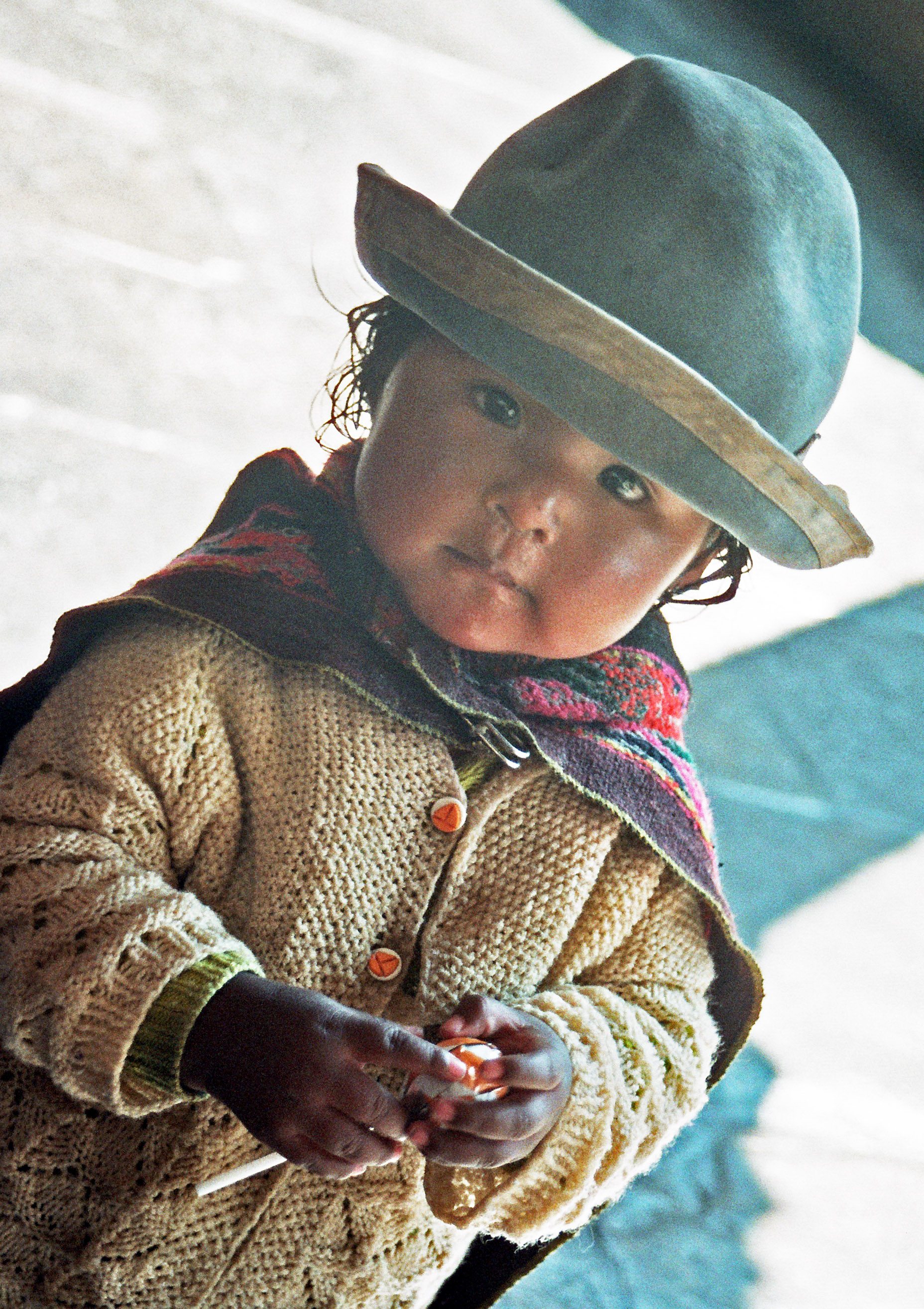 A girl, Yolanda, in traditional dress, working as a photo model for tourists in Cusco, Peru